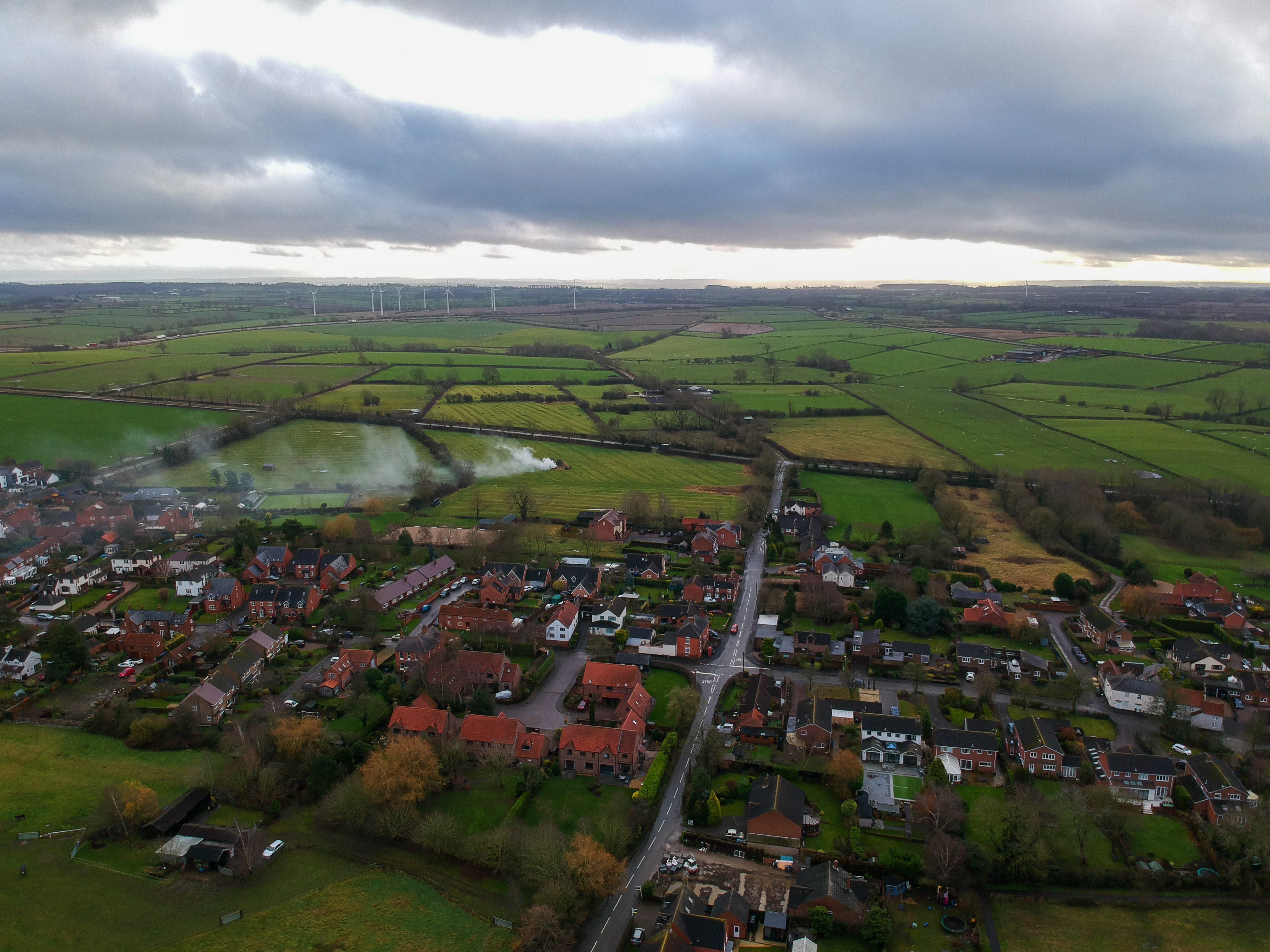 Aerial photograph of Willoughby On the Wolds, Main Street and Back Lane